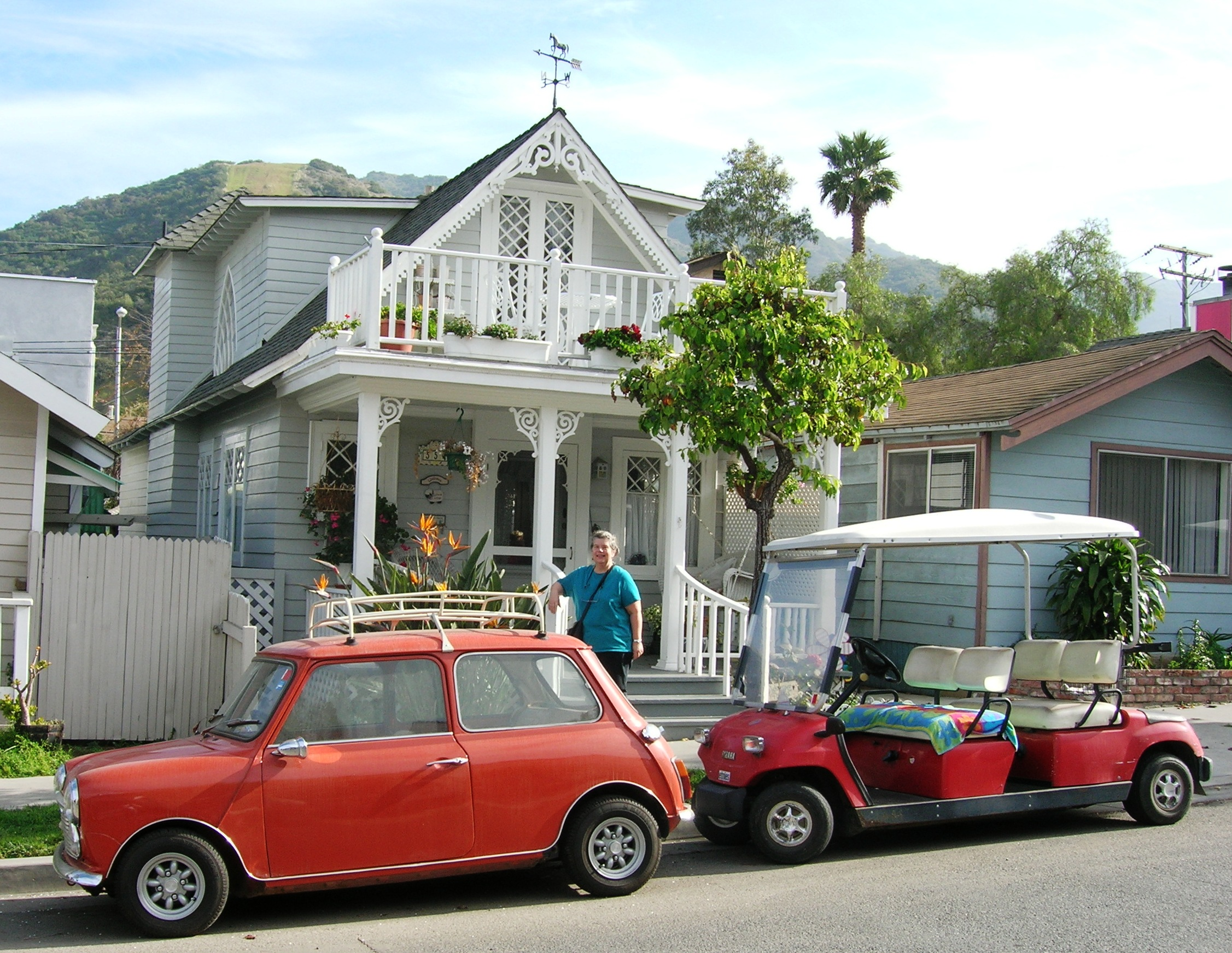 We really liked the scale of Avalon, California; here's a good example. i020606 227